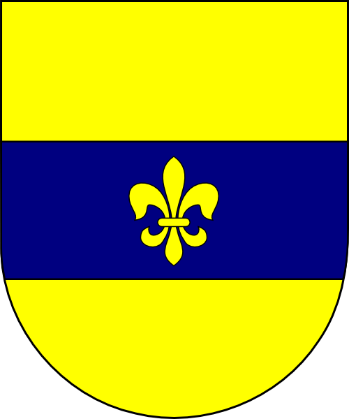 Coat of arms (shield only) of Jan Leopold Hay, bishop of Hradec Králové, Czech Republic (1780 - 1794).